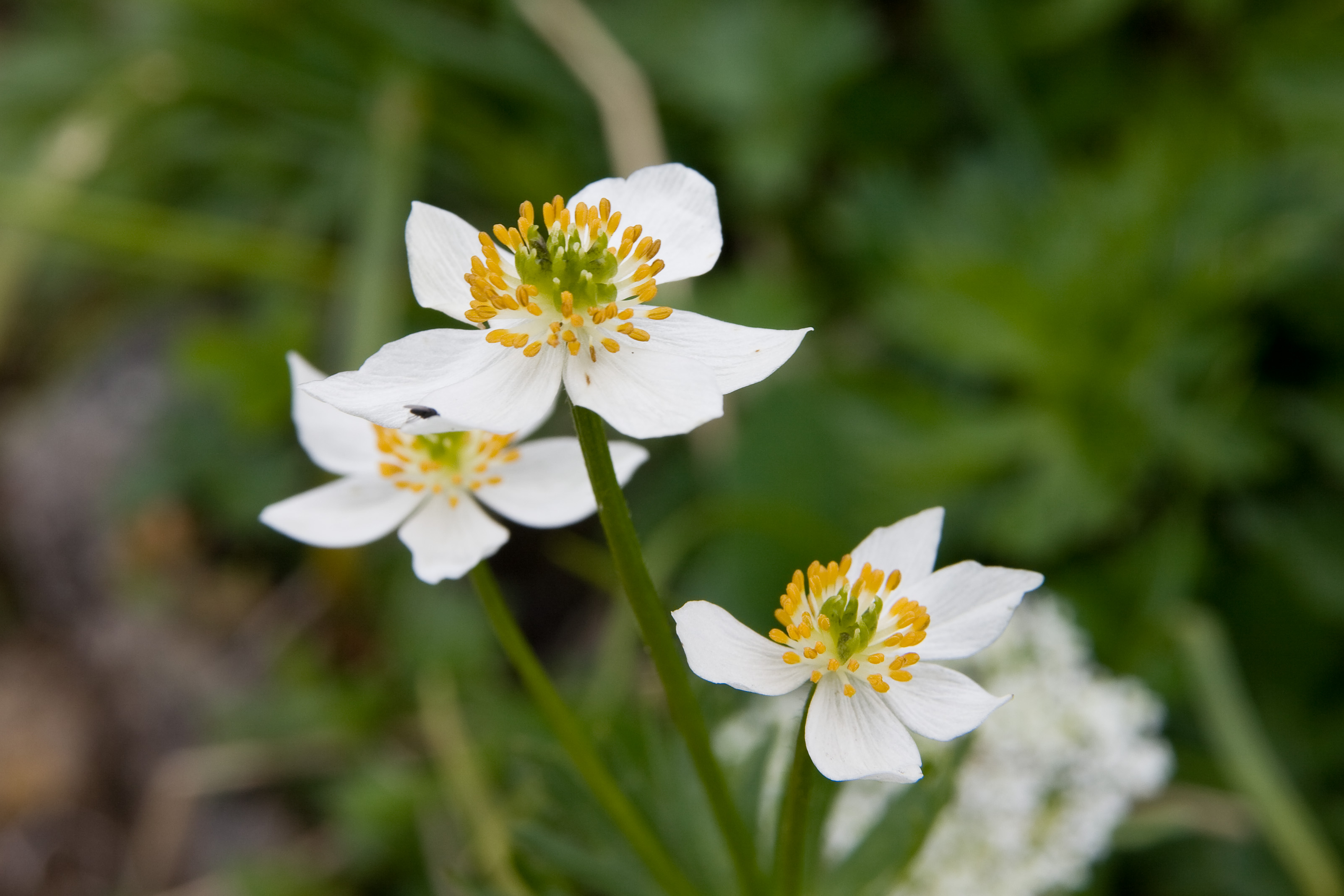 Anemone narcissiflora